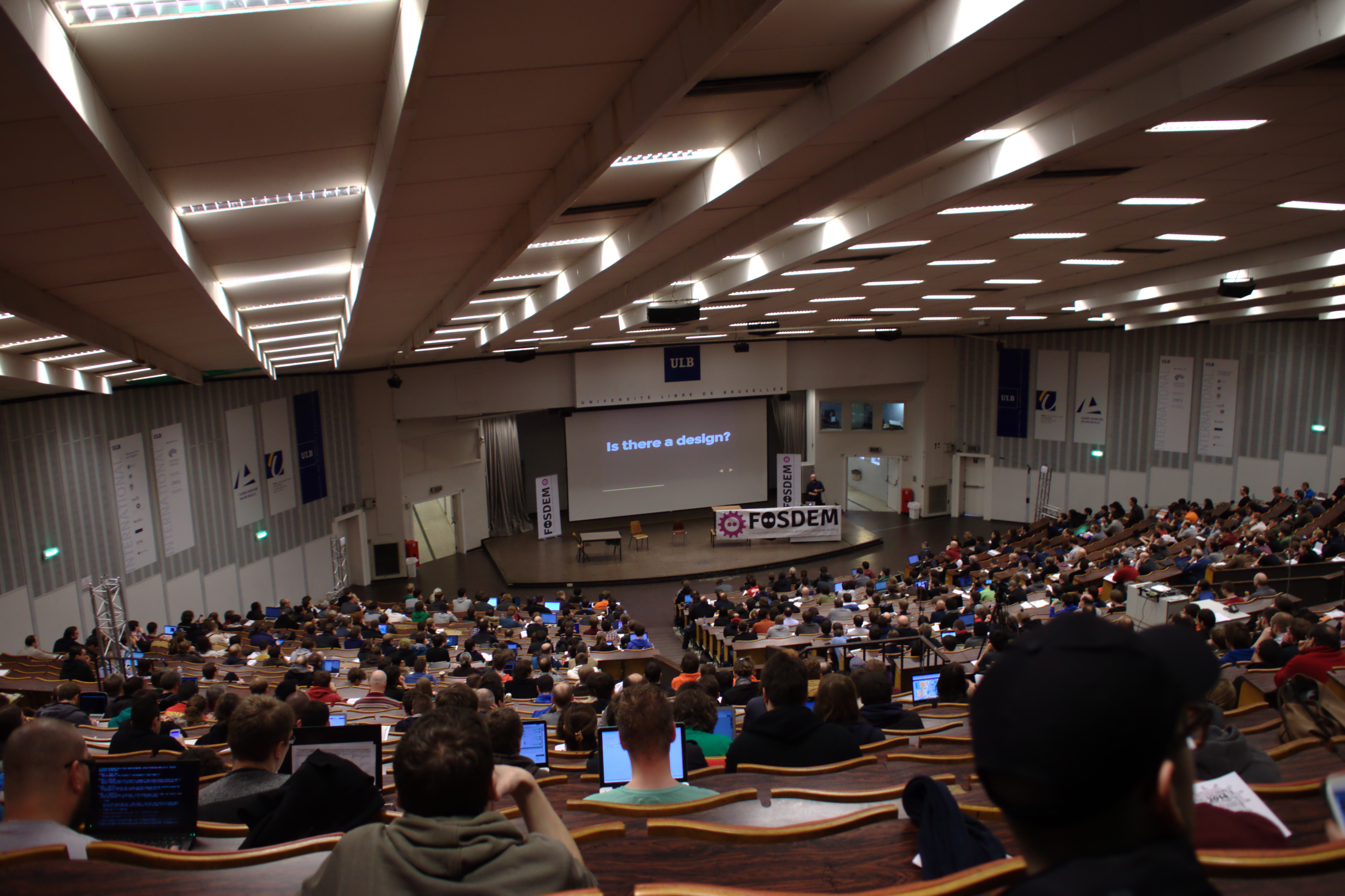 FOSDEM 2014 conference in Brussels, Belgium